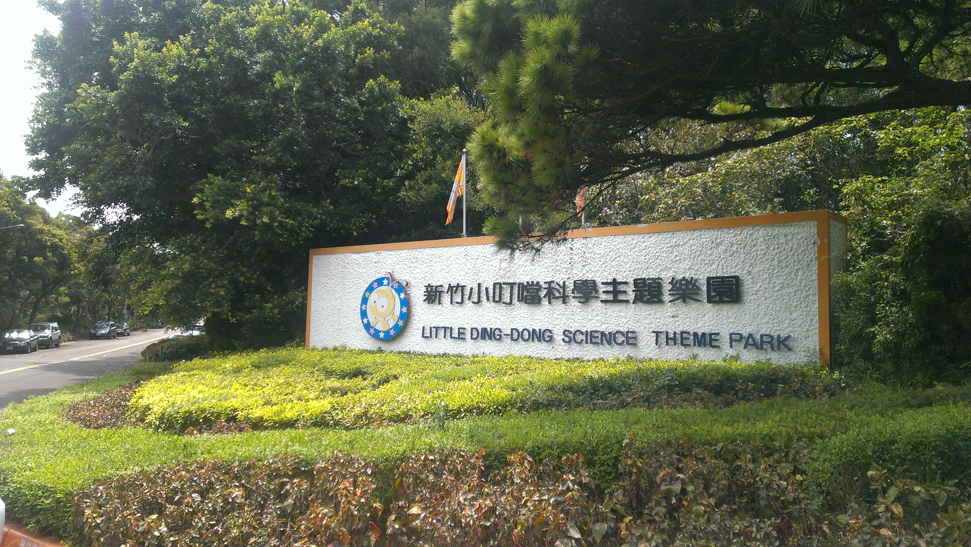 Little Ding-Dong Science Theme Park entrance sign.